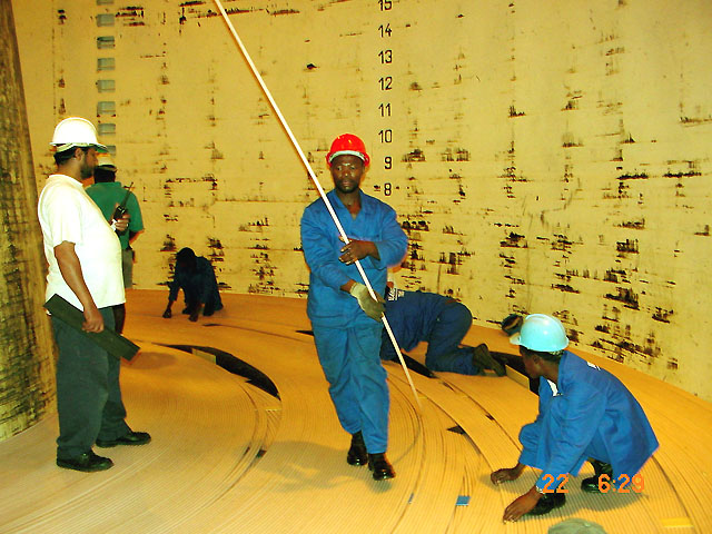 Loading of a submarine cable in a tank on board a cable ship